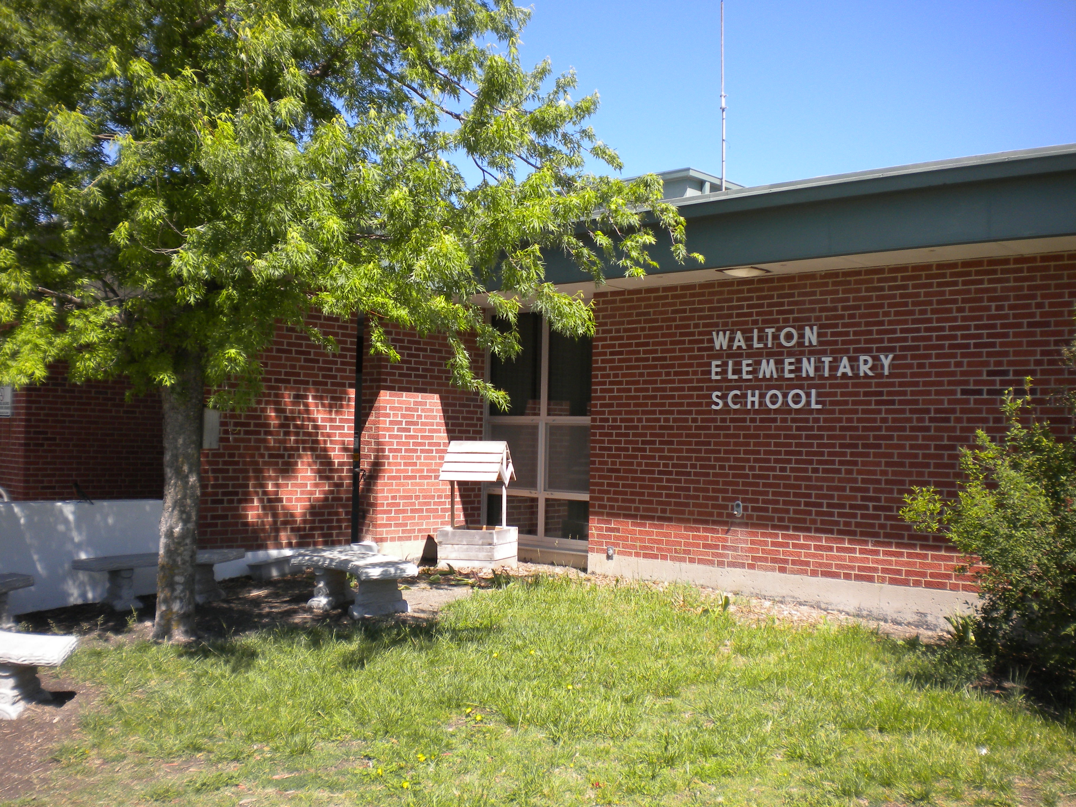 Walton Rural Life Center in Walton, Kansas, 2016.